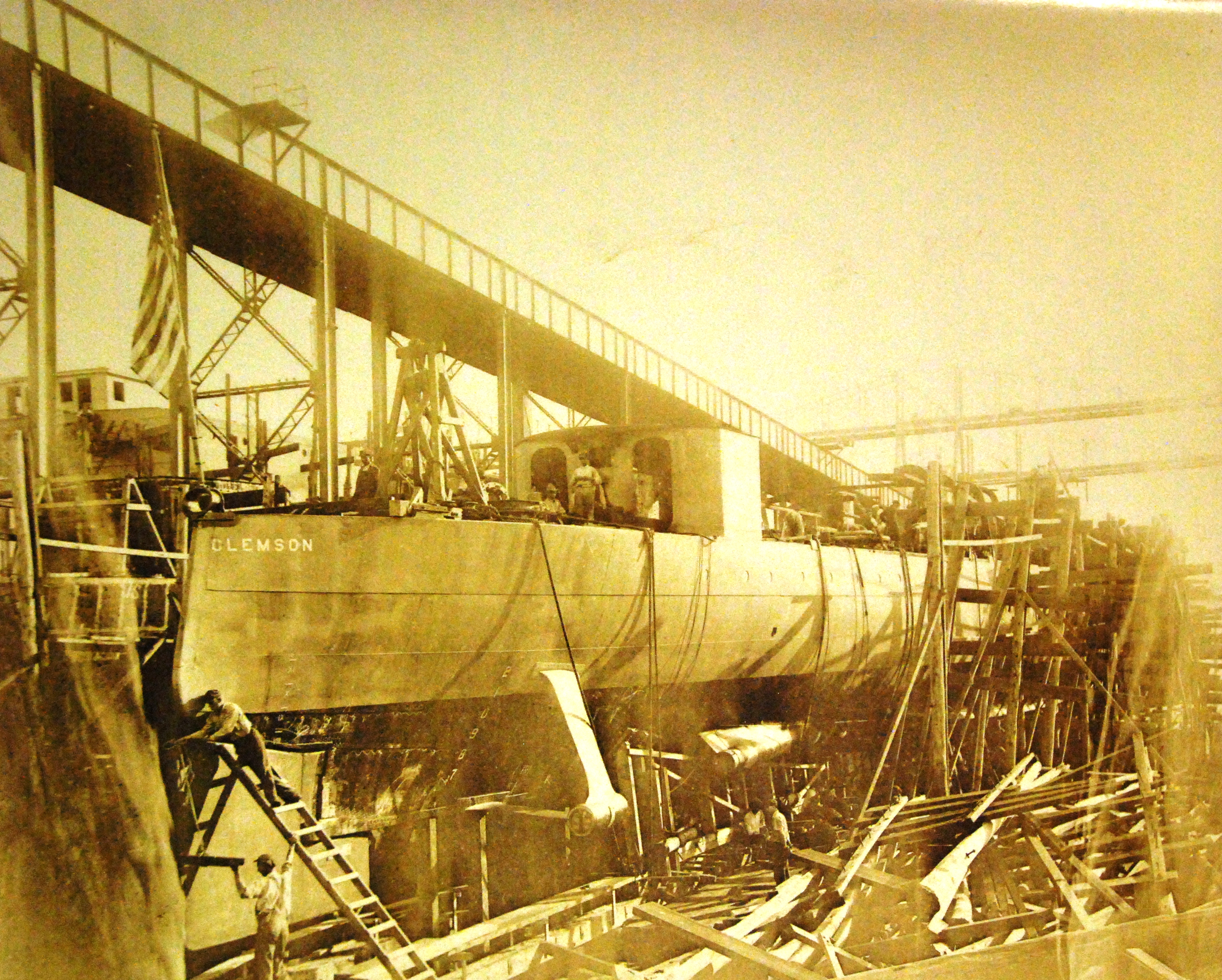 Lot 5423-3: Launching of USS Clemson (DD 186) at Newport News, Virginia, September 5, 1918. This ship was sponsored by Miss M.C. Daniels. A veteran of World War II, she was decommissioned in October 1945 and sold a year later. Collection of Secretary of the Navy Josephus Daniels. (7/24/2015).